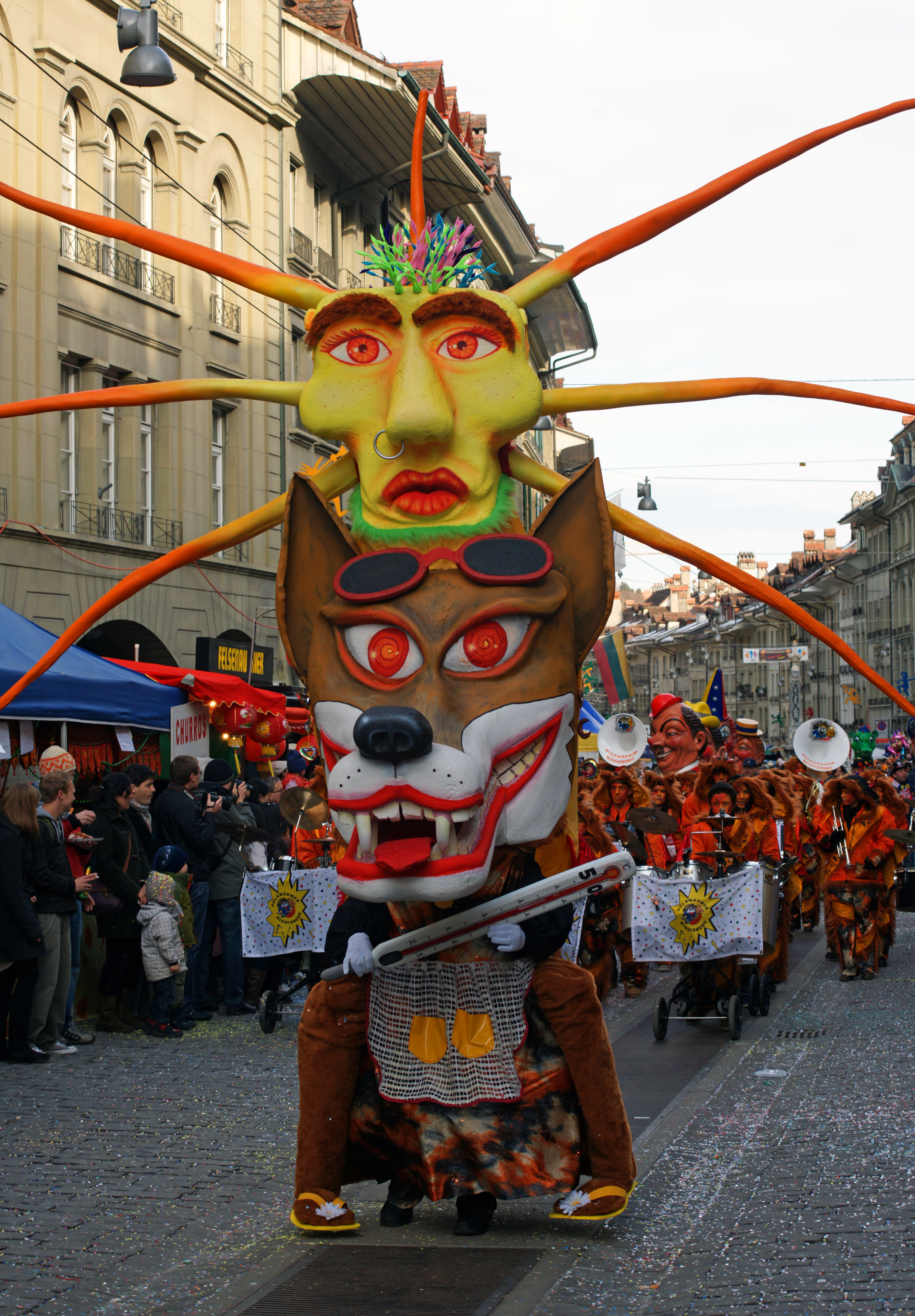 Participants in the Bernese Carnival 2010.